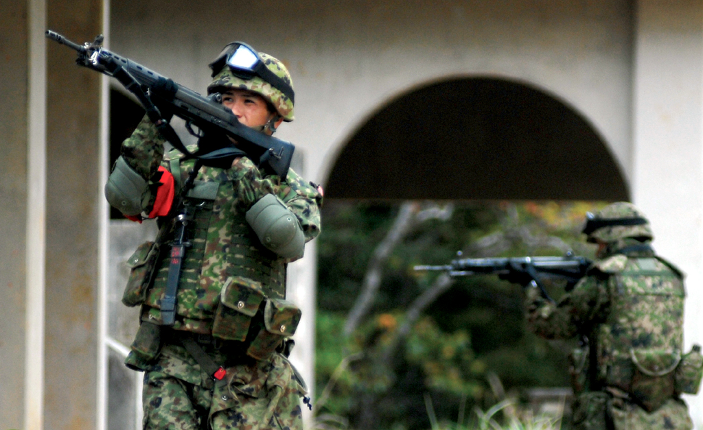 Japan Ground Self Defense Force soldiers patrol through the Central Training Area's combat town March 17. The JGSDF recently started using the CTA for training in accordance with the U.S. - Japan Alliance: Transformation and Realignment for the Future agreement of October 2005. (Photo by Lance Cpl. David Rogers).